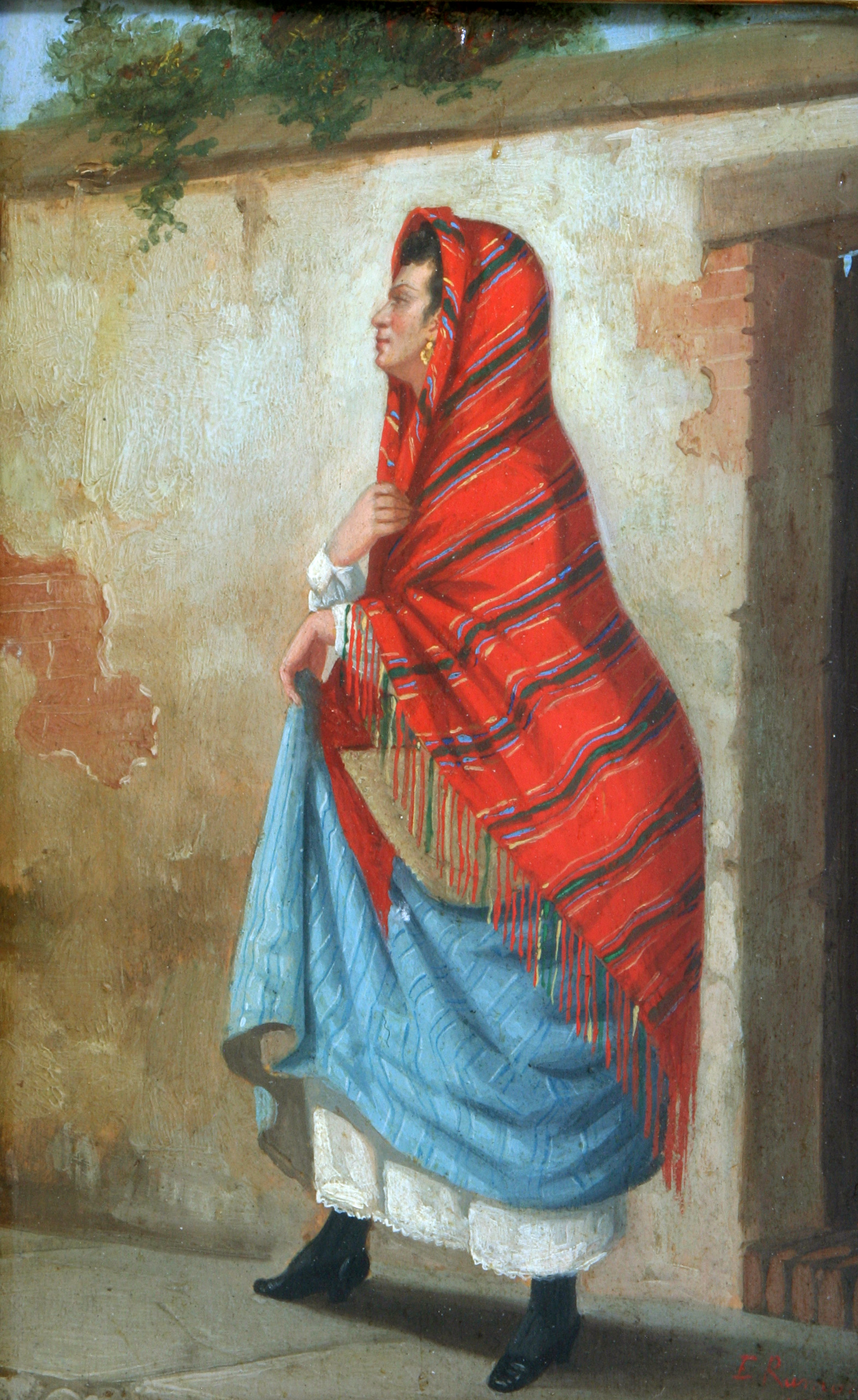 A well-dressed Spanish lady with a red shawl and blue skirt in a 1874 painting. Oil on panel, 6-12/16" x 4-3/8".